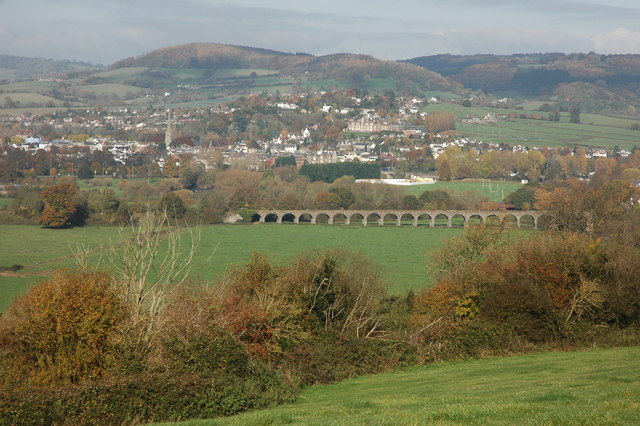 Old railway viaduct viewed from the south, Monmouth